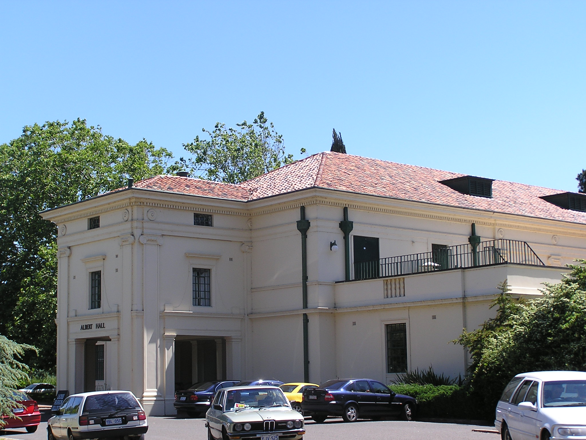 Albert Hall, Canberra